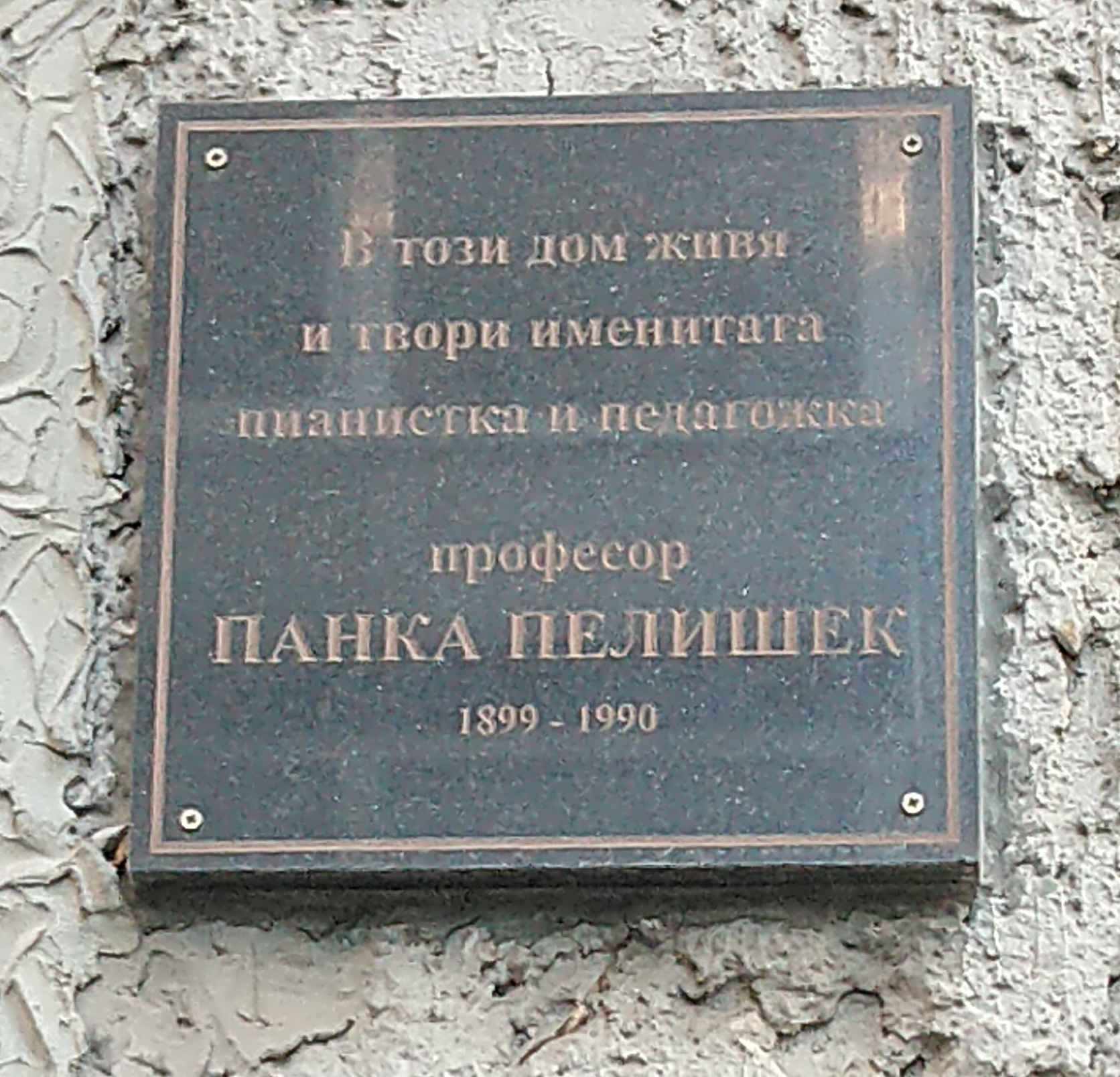 Memorial plaque of Panka Peliszek, 48 Aksakov Str, Sofia